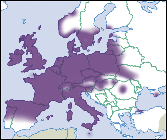 Discus rotundatus (Müller, 1774). Distributional range in Europe, scientific state of knowledge of 2012. Source description in English. Light colour indicated rare occurrences or regions where the species could eventually be expected to occur. Dark colour indicated relatively reliable occurrences, as well as regions where the species was expected to occur, and where the species was not known to be extremely rare. Dark colour indications were not necessarily based on published records. Species summary in AnimalBase